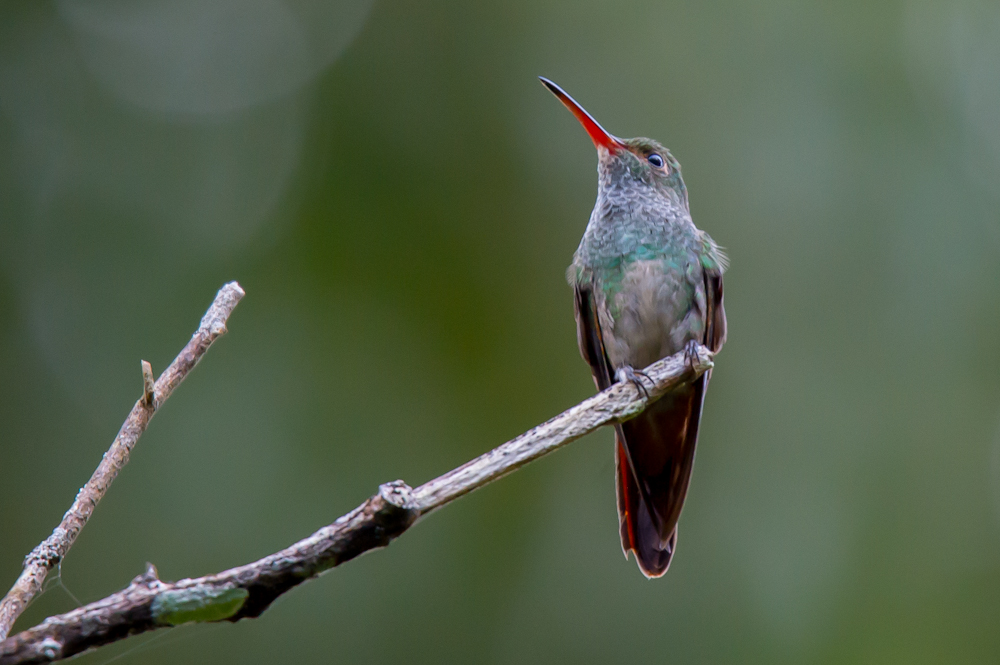 Species found in countries such as Costa Rica and Panama.